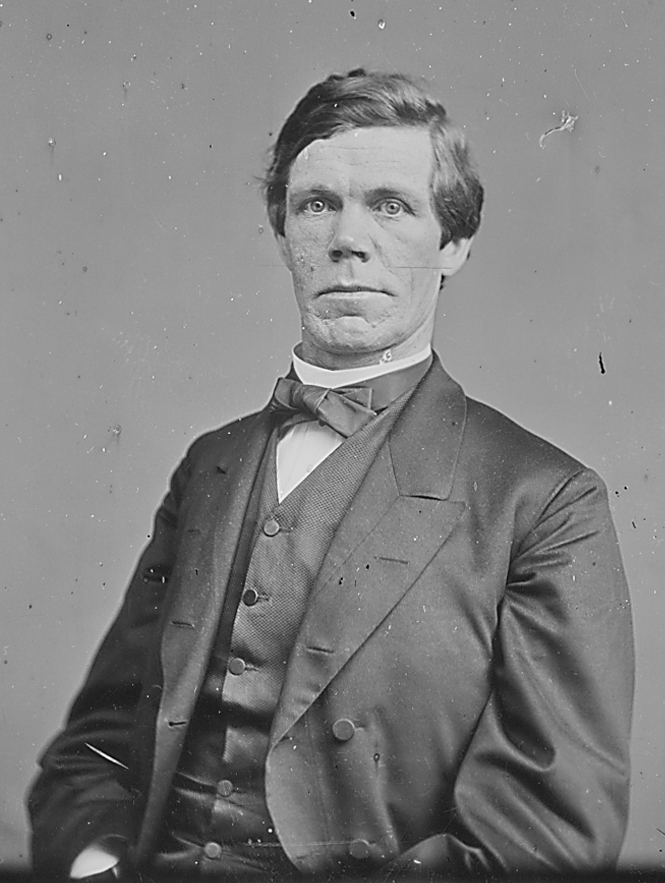 Photograph of United States Representative William Loughbridge (R-IA).